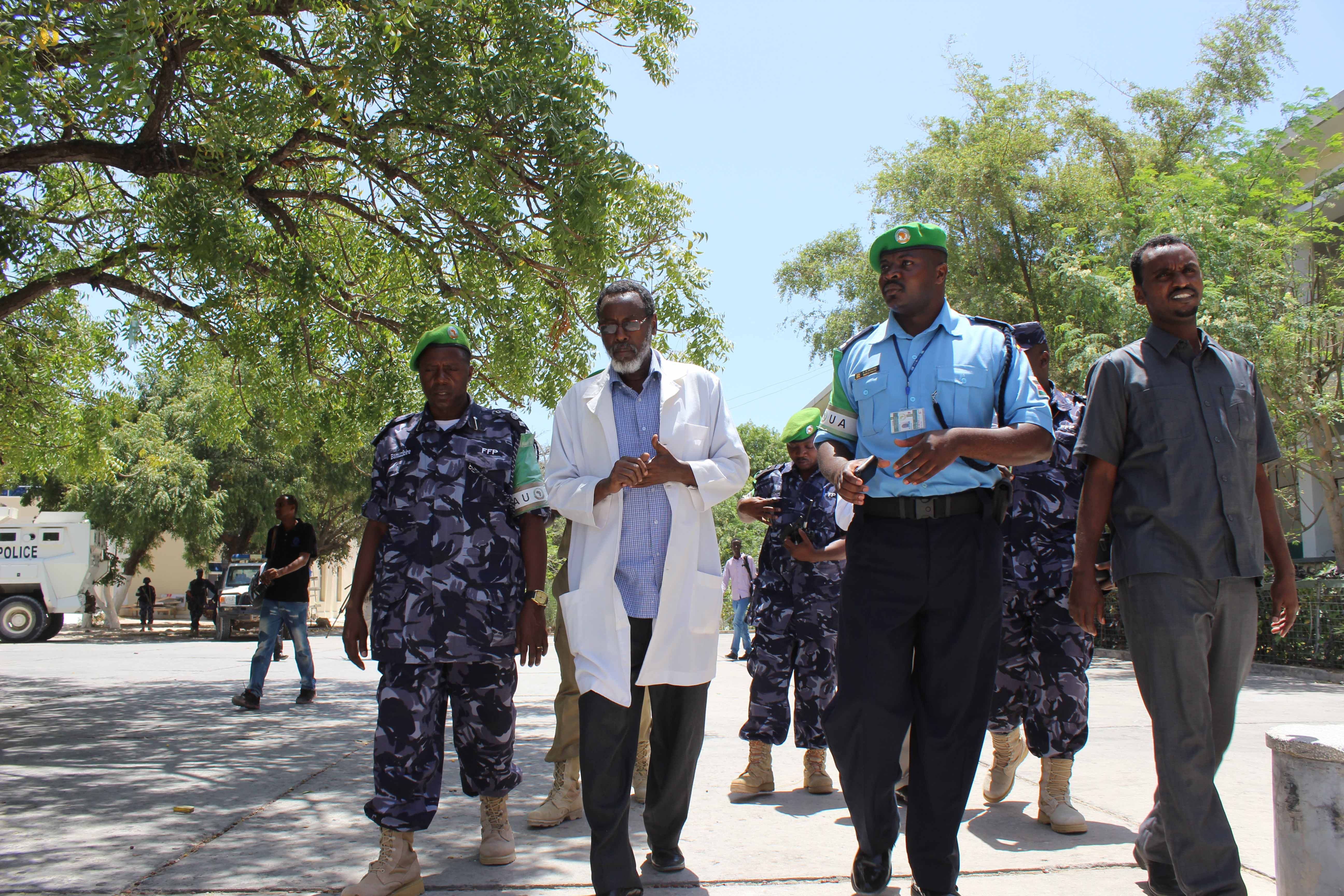 AMISOM Formed Police Unit 3rd contingent Commander Bamuzibire Samuel (Left) walks with Benadir Hospital Director, Dr Abdirisak Hassan (In white coat) and AMISOM Police PIO Edwin Mugera at a food donation event, at Benadir Hospital in Mogadishu, Somalia on 3rd March, 2015. AMISOM Photo/ Awil Abukar